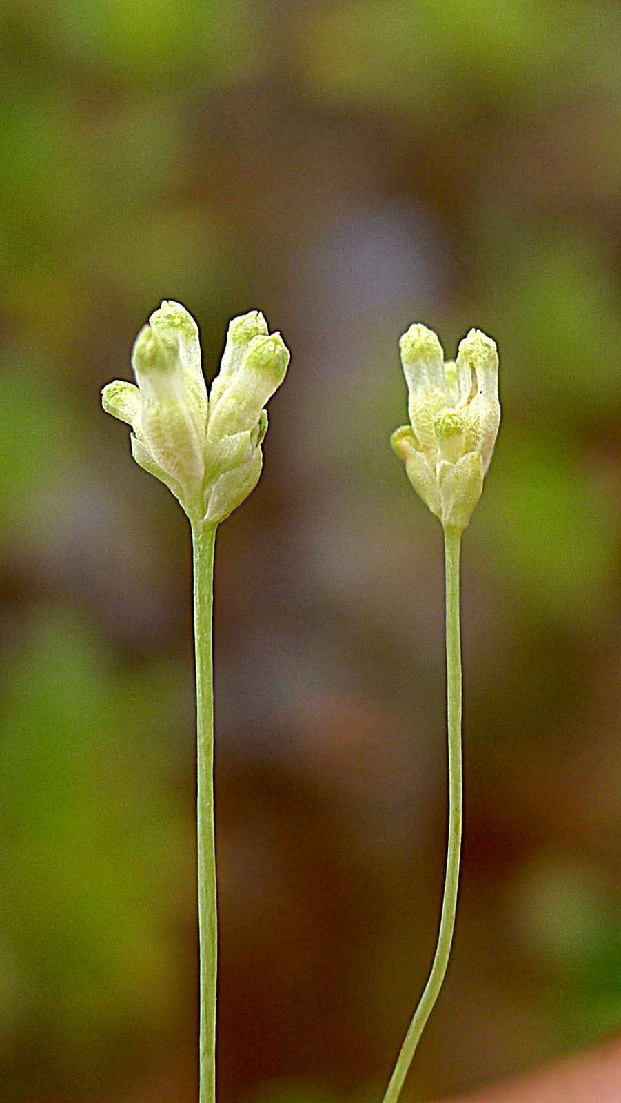 Burmannia capitata Mart., Burmanniaceae, Atlantic forest, northeastern Bahia, Brazil Herb 15 cm. Waterlogged habitat. Popovkin & Mendes 1259 (HUEFS).